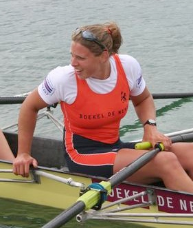 Claudia Belderbos after winning bronze, World Cup Banyoles 2009